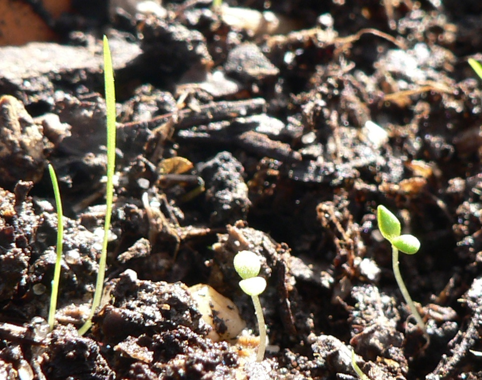 Comparison of monocot and dicot sprouting